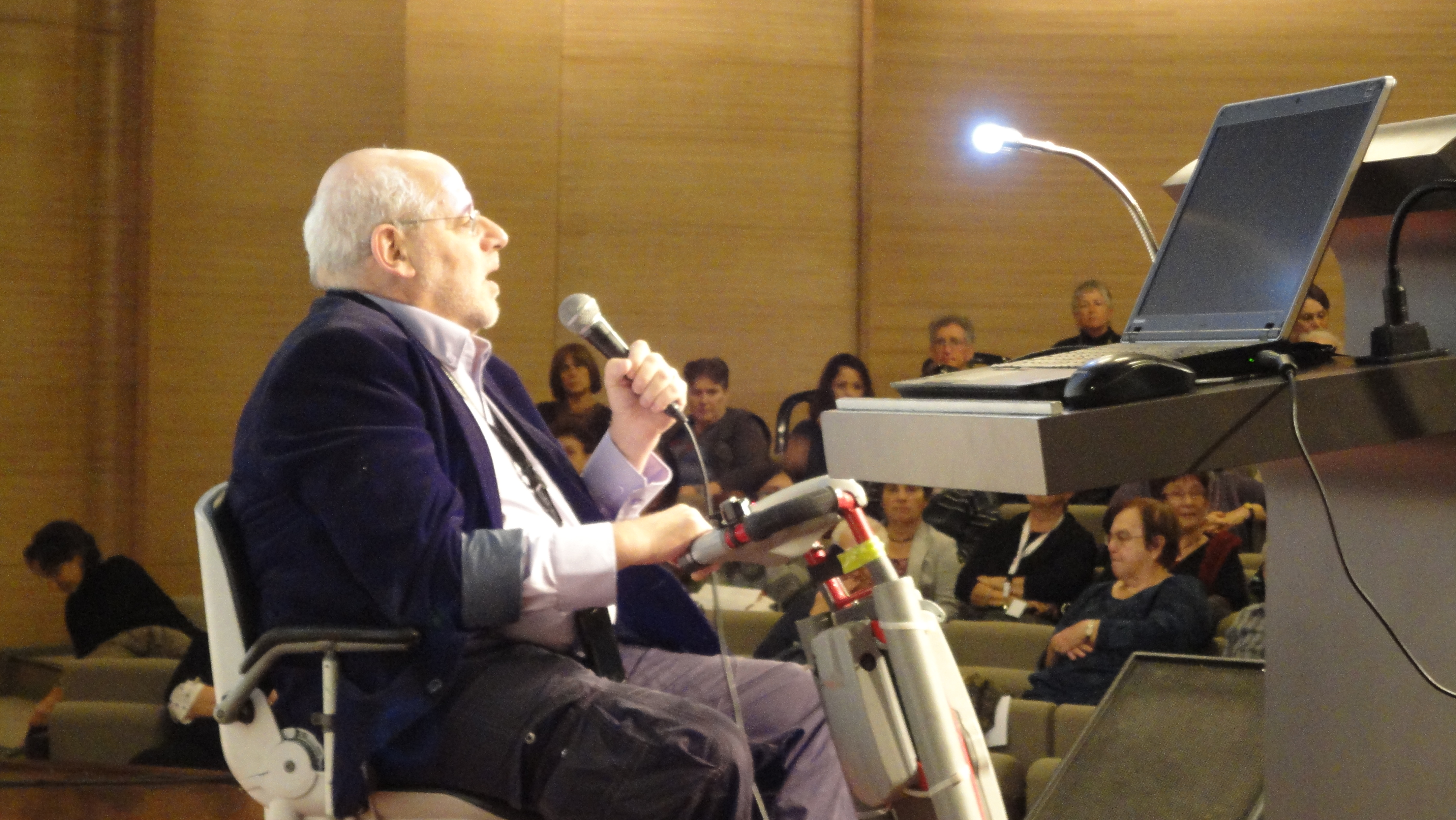 Creative Arts in Israel in the 21st Century – The First Dozen Years Leading artists and scholars gather in an unprecedented attempt to characterize Israeli artistic production – in the visual and performing arts, architecture and design, literature, music, cinema and television – in the 21st century. This multidisciplinary event comprises intriguing lectures and discussions, complemented by audiovisual materials and the presentation of selected works by their creators. Tues-Wed | December 18-19 / 10 am - 7 pm